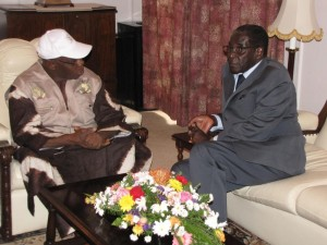 AU Observation Head - President General Olusegun Obasanjo visits President Robert Mugabe -Zimbabwe General Election 2013